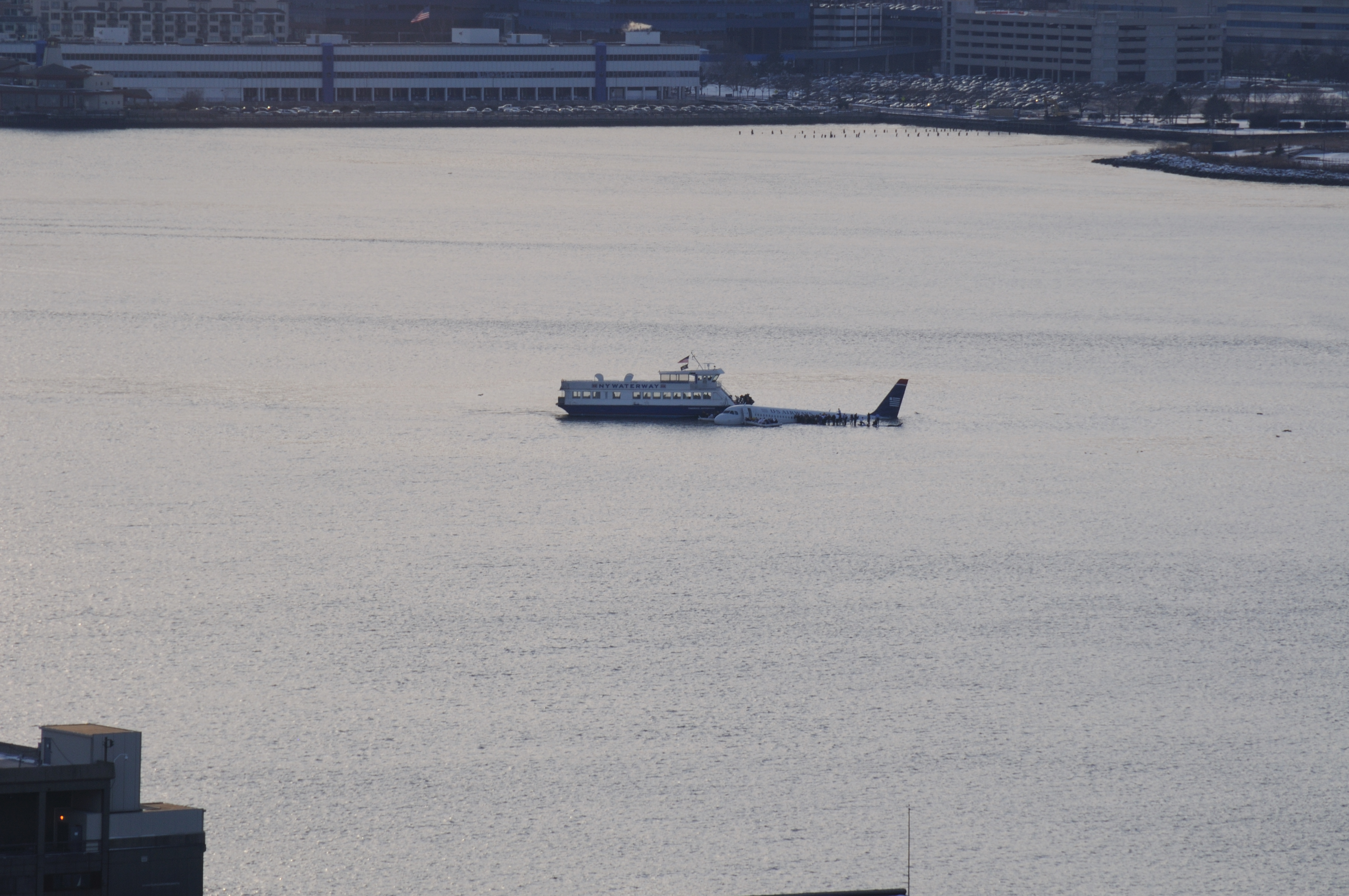 US Airways Flight 1549 in the Hudson Rover New York, USA on 15 Janaury 2009